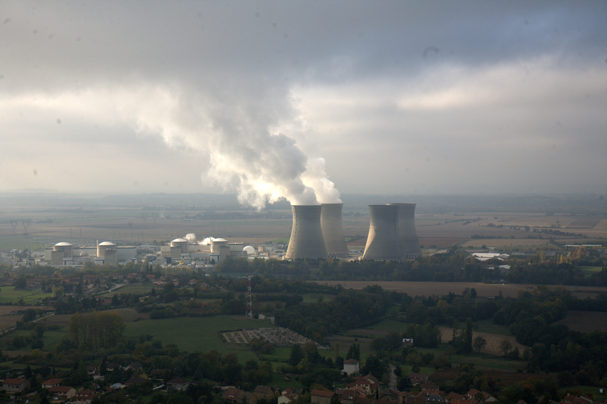 Nuclear plant of Bugey (France, EDF) and clouding plume ; a disturbing industrial landscape.